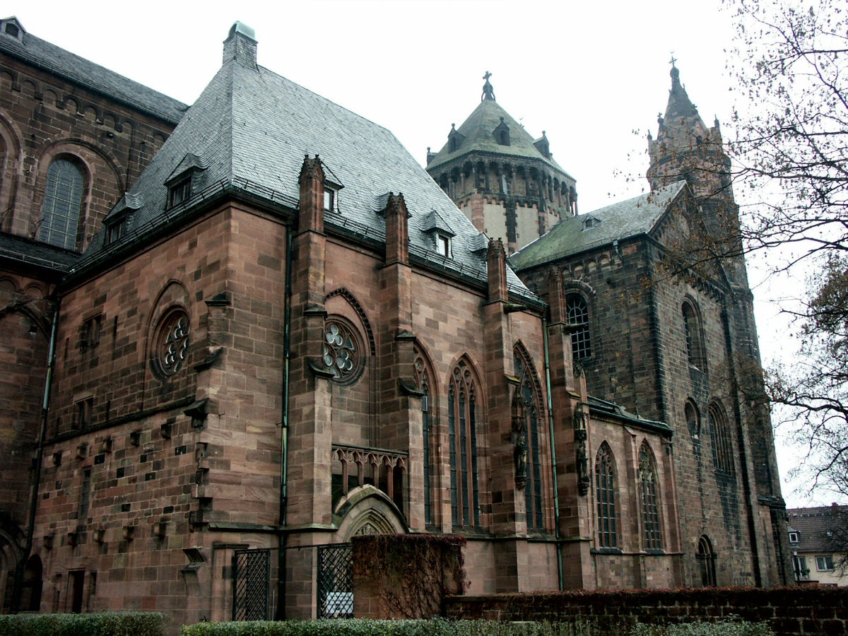 Cathedral St. Peter (Dom St. Peter), Worms, Germany